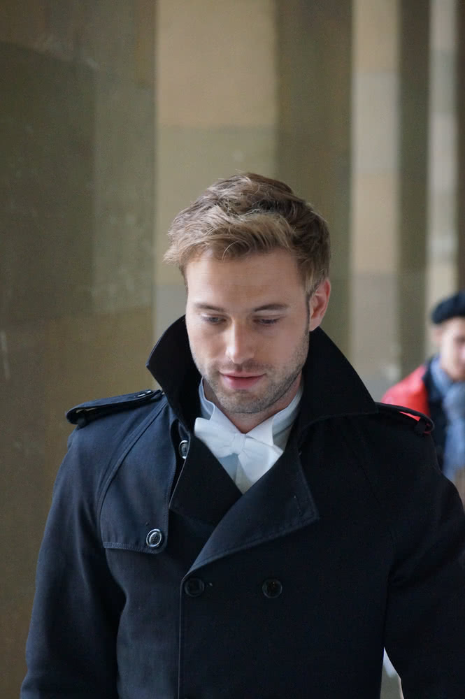 Benjamin Appl after a performance in Bressanone/Italy in summer 2017